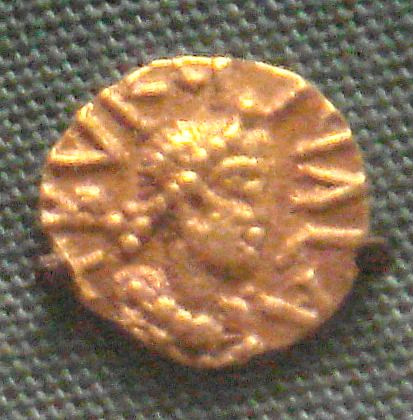 Merovingian_tremisses_minted_in_Bordeaux_by_the_Church_of_Saint_Etienne_late_6th_century.jpg